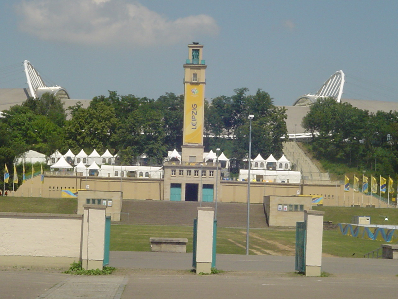 Zentralstadion Leipzig (central stadium Leipzig, centrální stadion Lipsko) view from the tram stop "Sportforum" Author: user "becherka"